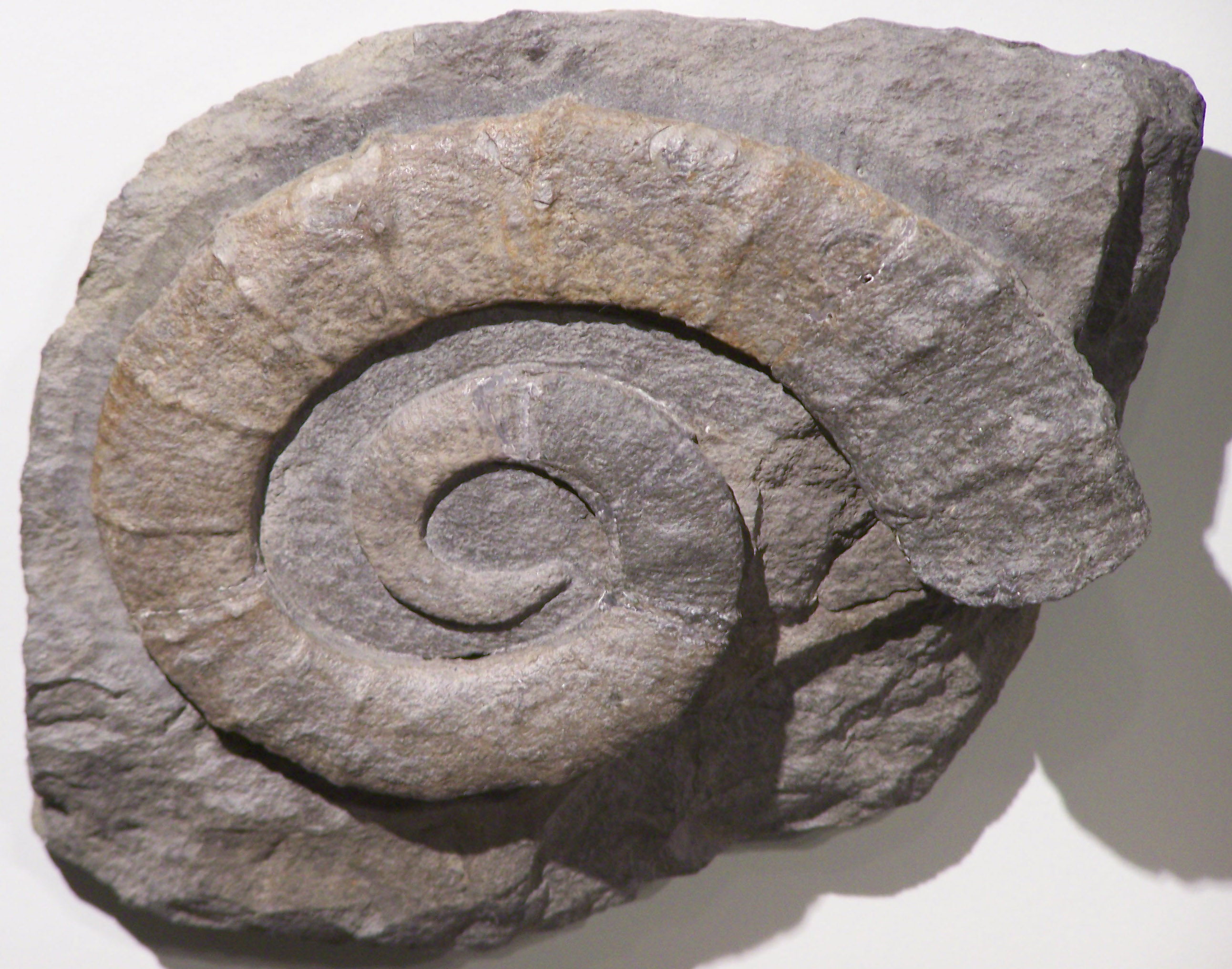 Fossil of the ammonite species Crioceratites sp., specimen is about 20 cm from left to right. Naturhistorisches Museum, Bern, Switzerland.